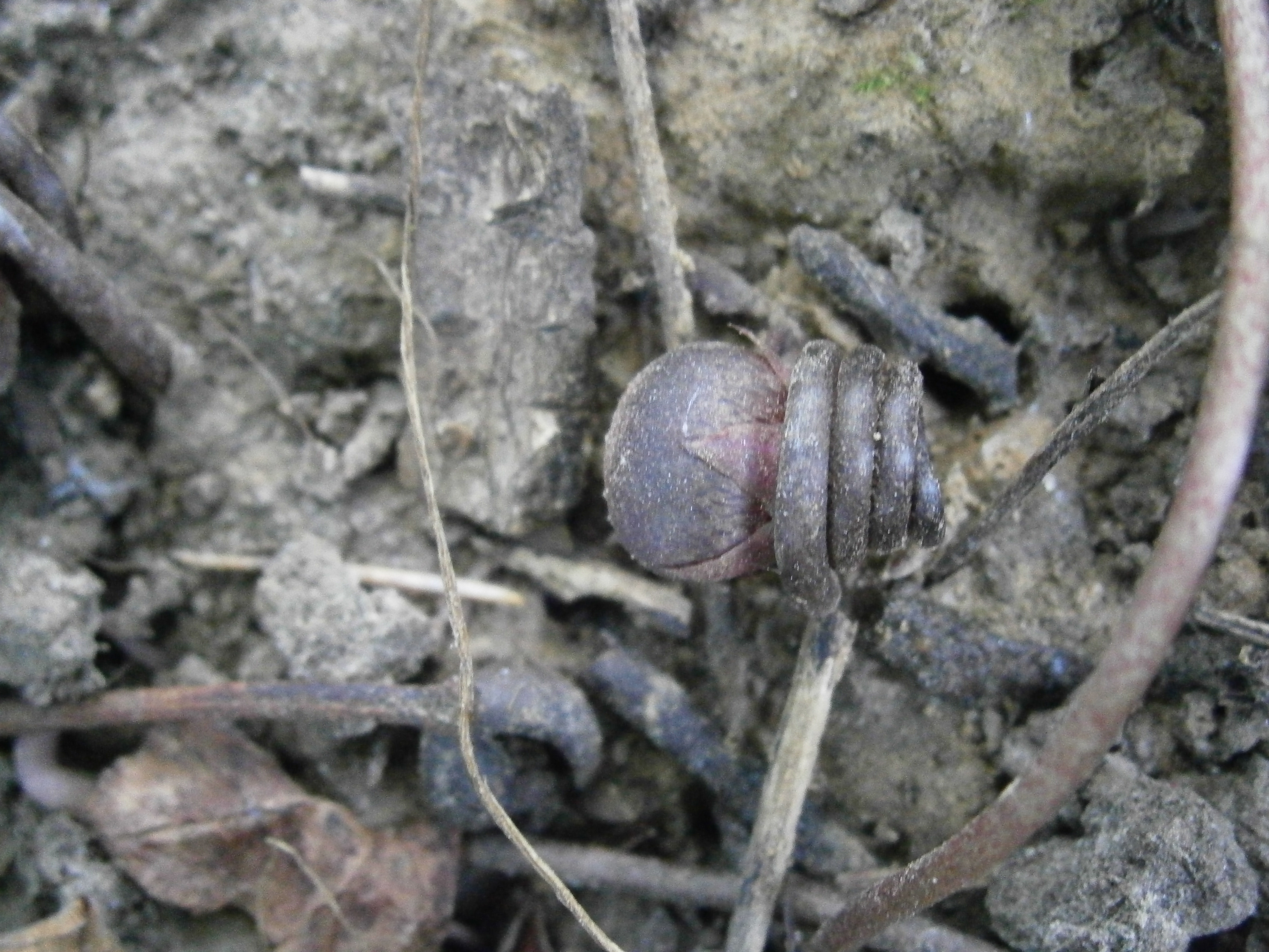 Cyclamen purpurascens seed pod (close-up)